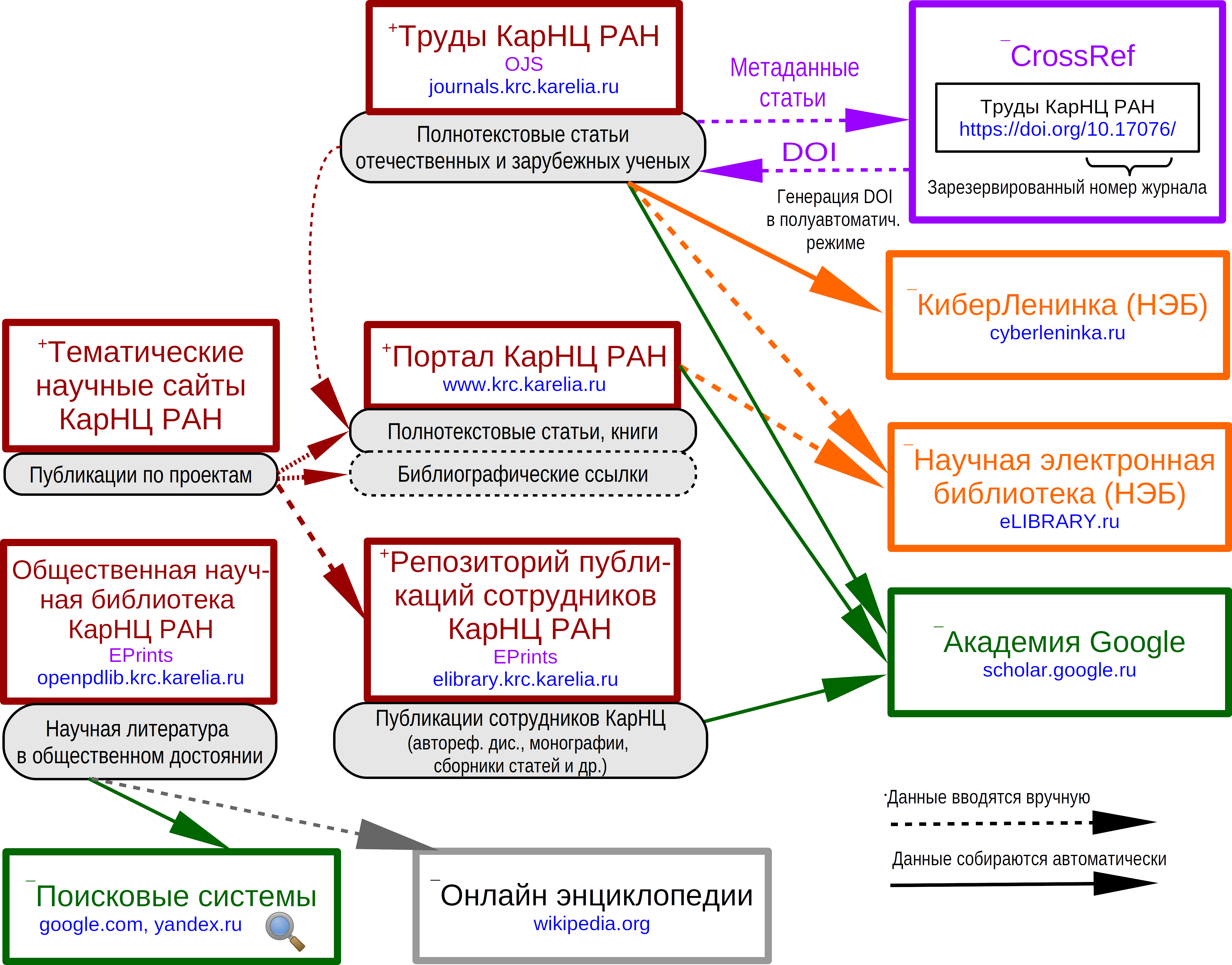 The digital preservation and dissemination of scientific information in the internal network of electronic resources of Karelian Research Centre of RAS (marked with a "+") and external resources (marked with "-"), 2016. File includes images: File:System search icon.png, CC0 1.0